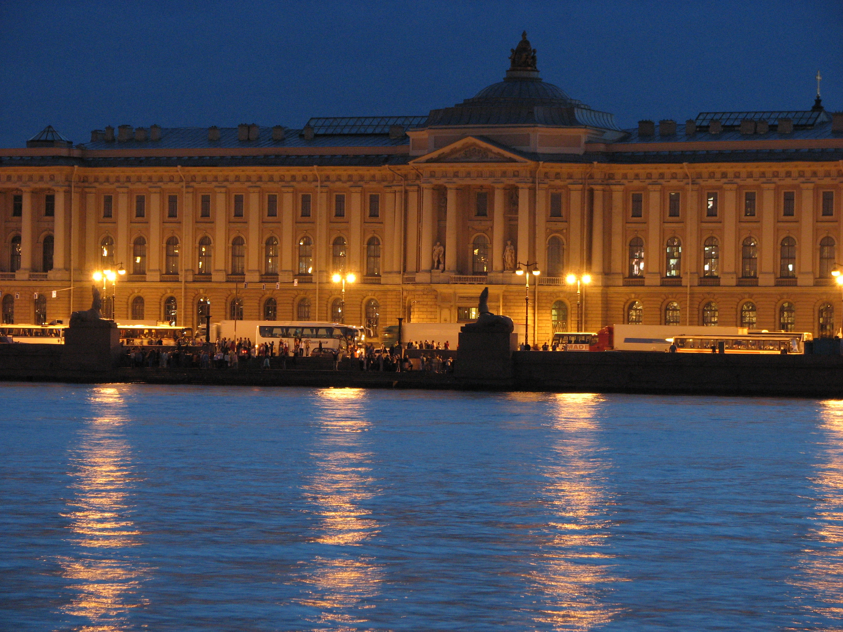 Saint Petersburg (Russia), Imperial Academy of Arts. White nights.